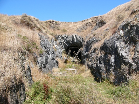 North Pacific Coast Railroad tunnel north of Keys Creek near Tomales, California.